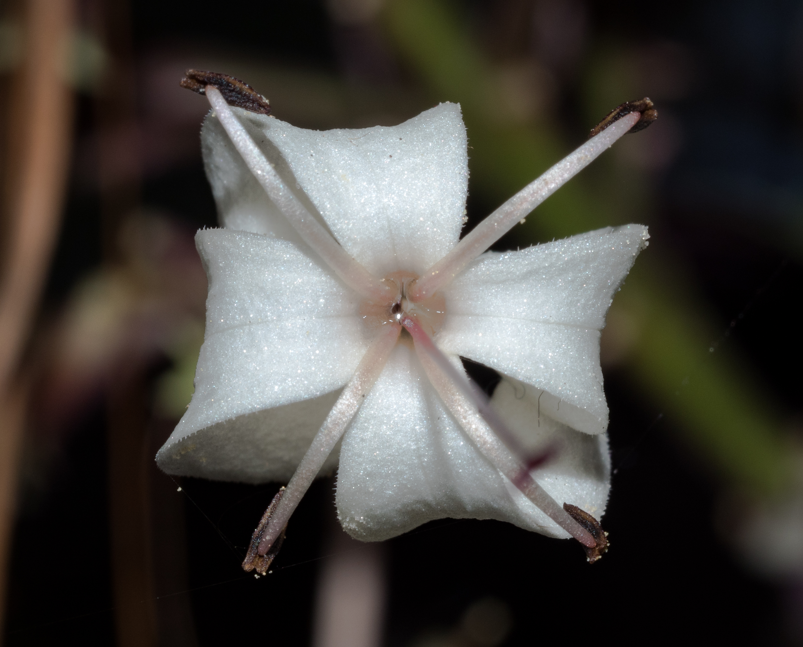 Clerodendrum quadriloculare flower Brooklyn Botanic Garden in January 2019